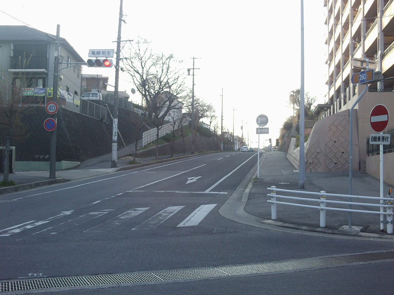 Aichi prefectural road No.260 in Kamezakiaioicho, Handa, Aichi.